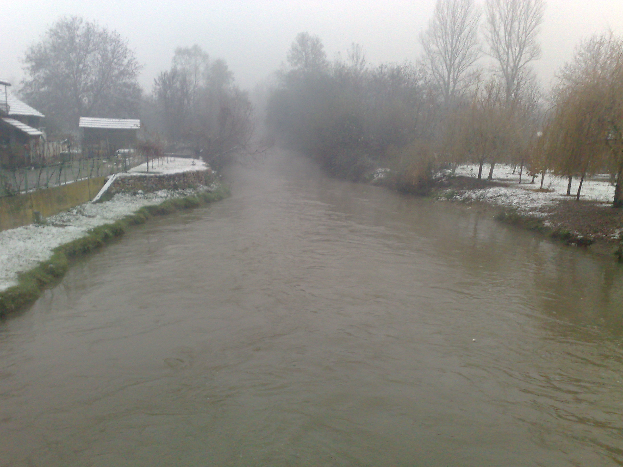 Vardar river near village of Tudence (Tetovo region), Macedonia